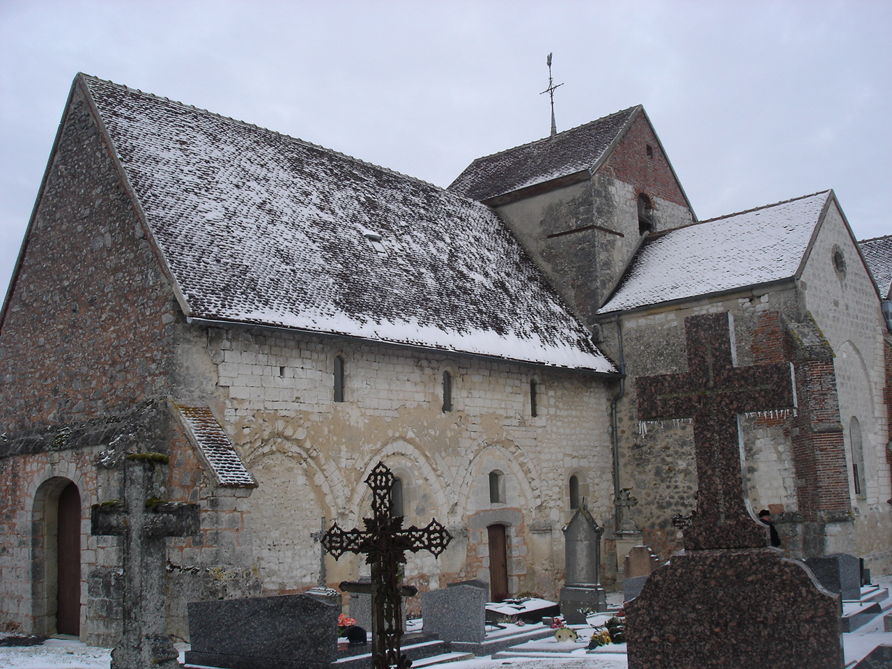 Church of Connantray-Vaurefroy, Marne, France.